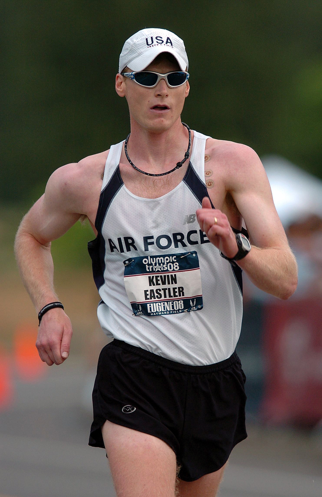 U.S. Air Force World Class Athlete Program Capt. Kevin Eastler earns an Olympic berth in the Beijing Games by winning the 20-kilometer race walk with a time of 1 hour, 27 minutes, 8 seconds at the 2008 U.S. Olympic Team Trials for Track & Field July 5, 2008, outside Autzen Stadium in Eugene, Ore.